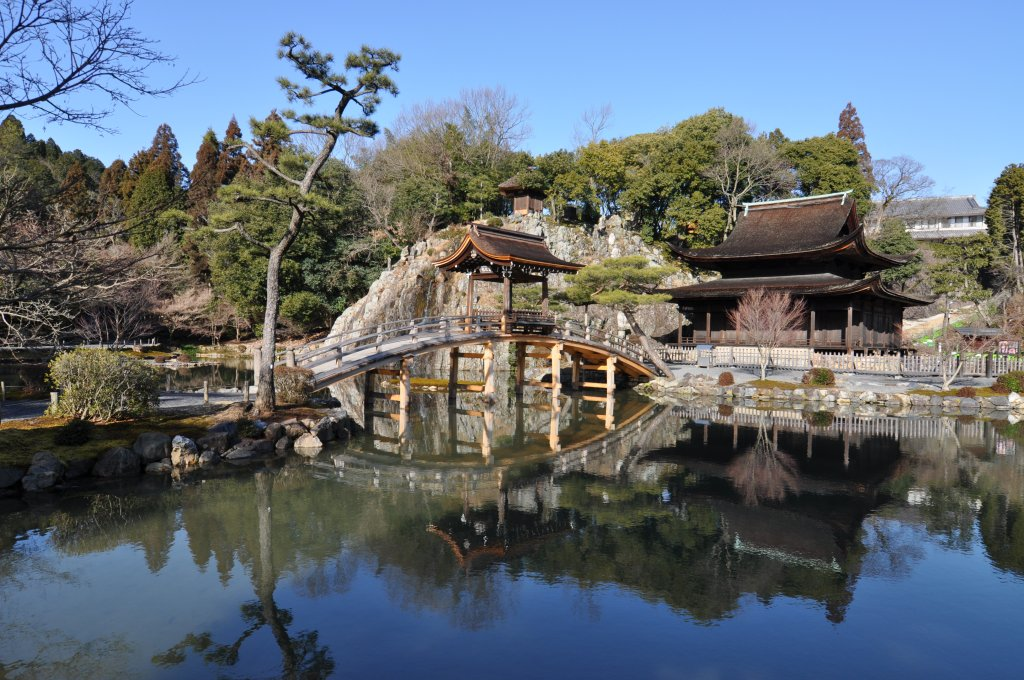 Kokeizan-kannondo